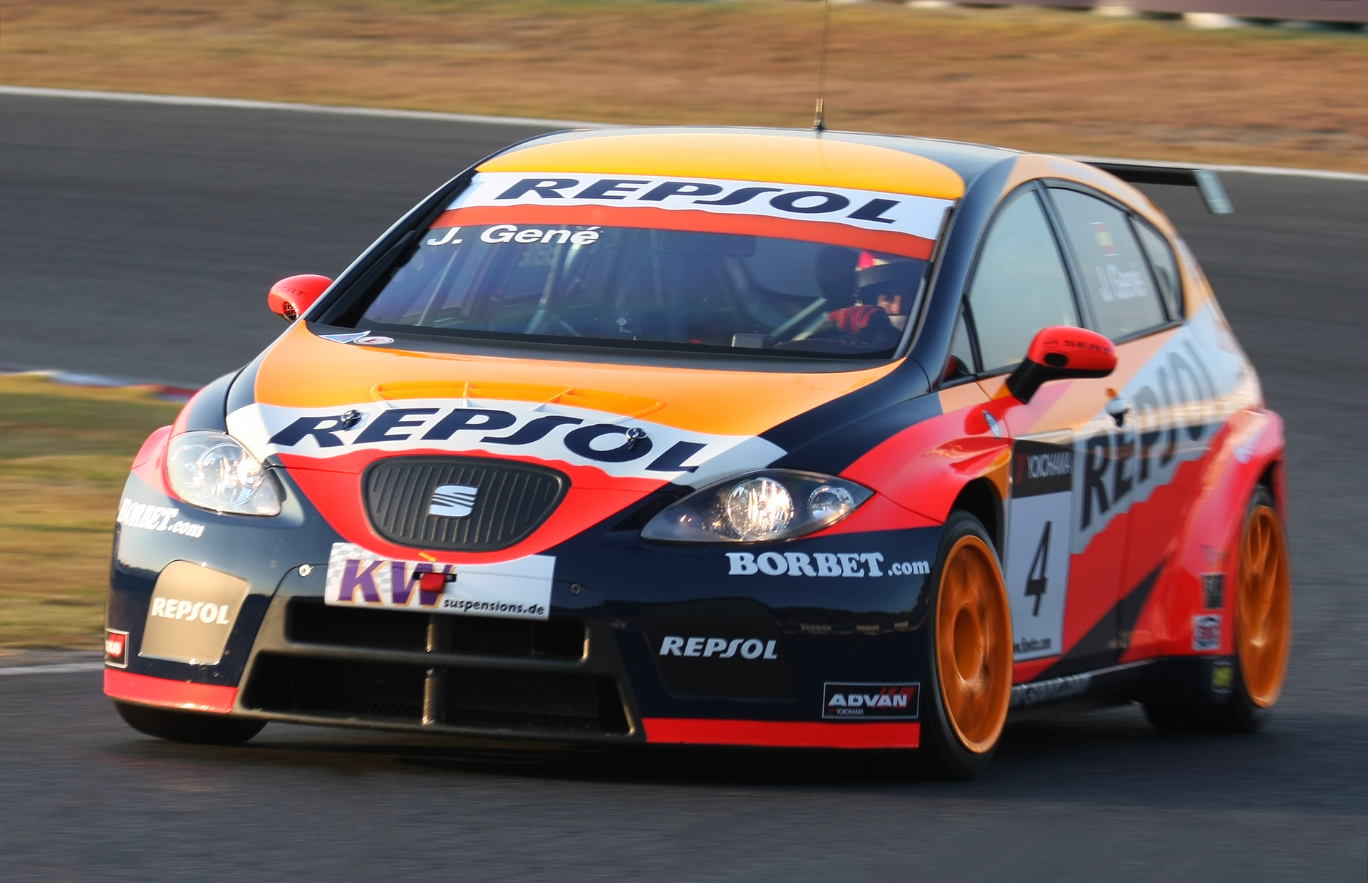 World Touring Car Championship 2009 Race of Japan: Jordi Gené (SEAT Sport) at free practice.